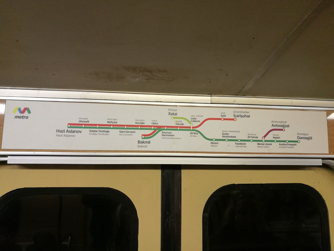 2018 Baku metro Green line